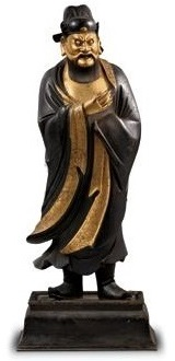 a sculpture of the Chinese infernal clerk Yuan Guo 中文（中国大陆）: 酆都（冥府）の五道案の判官——郭願 立像